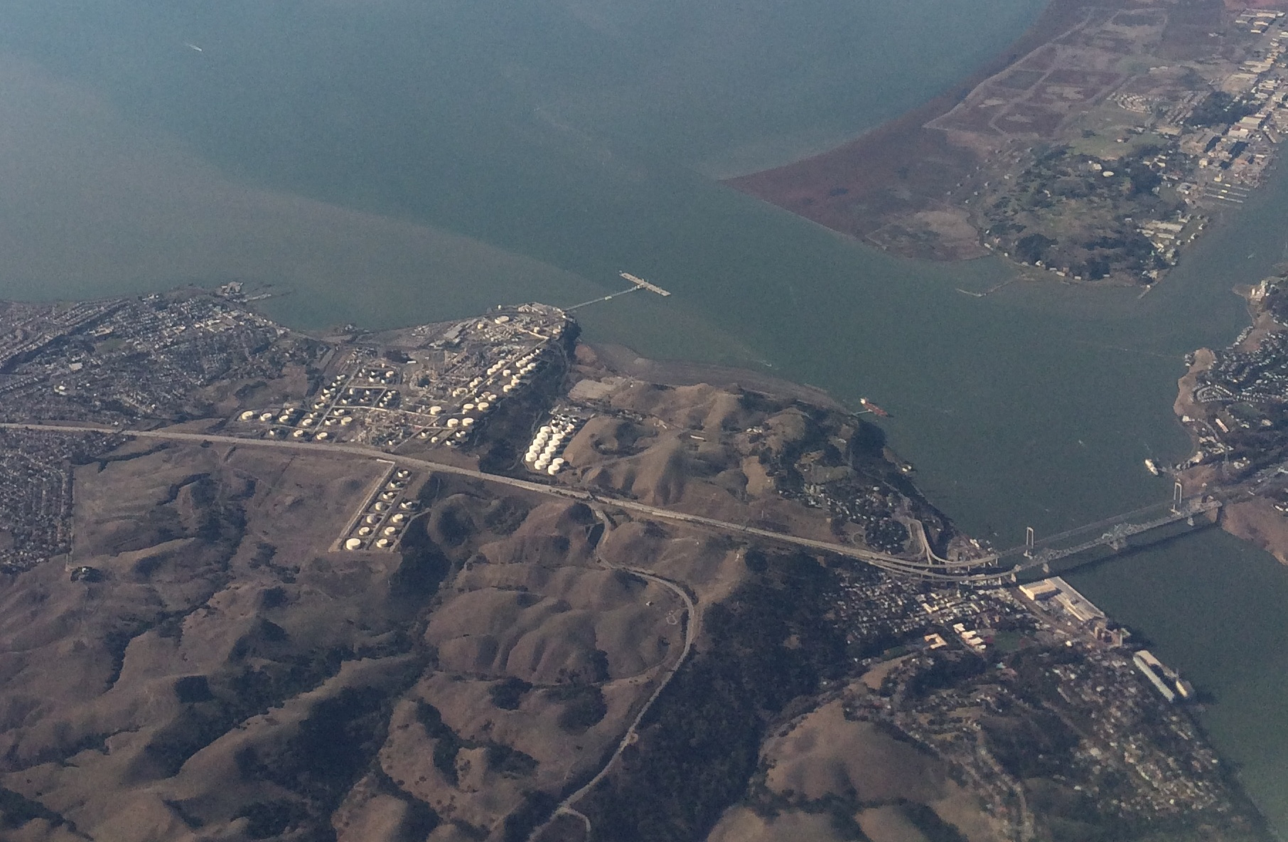 An oil refinery, the Rodeo San Francisco Refinery, near the Carquinez Bridge in California, in context with the San Francisco Bay